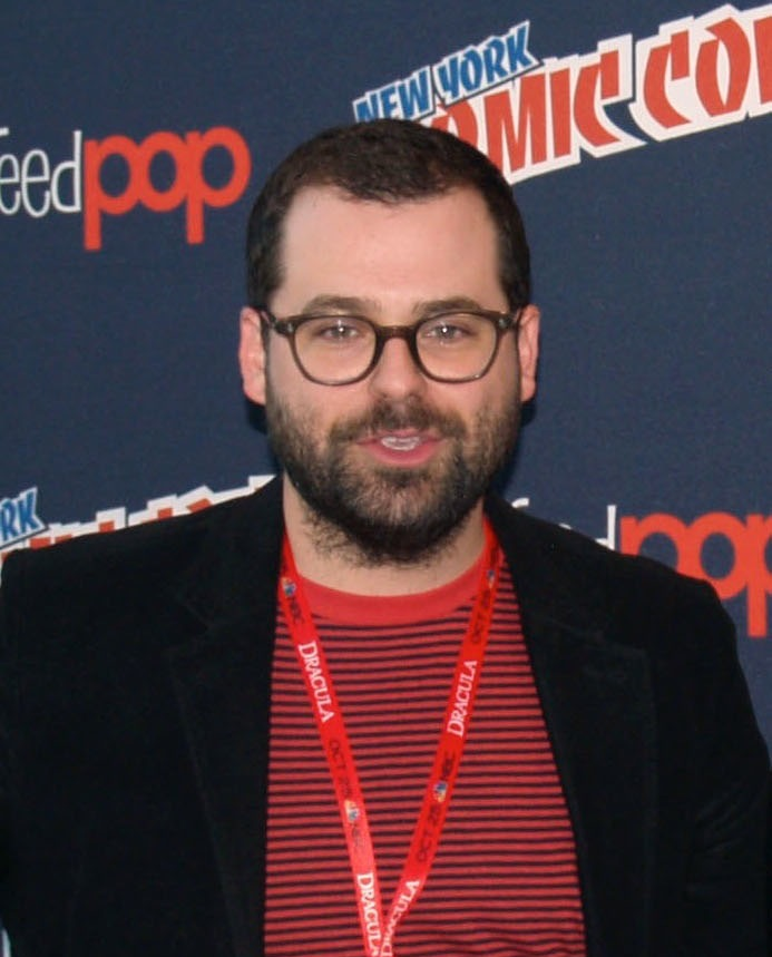 Comic book artist and television writer/producer Brad Neely during a press event for the Cartoon Network TV series China, IL and Rick and Morty at the Jacob K. Javits Convention Center in Manhattan, on Saturday October 12, 2013, Day 3 of the 2013 New York Comic Con.